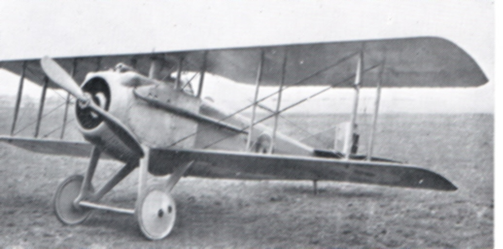 British-built SPAD SVII of the RFC